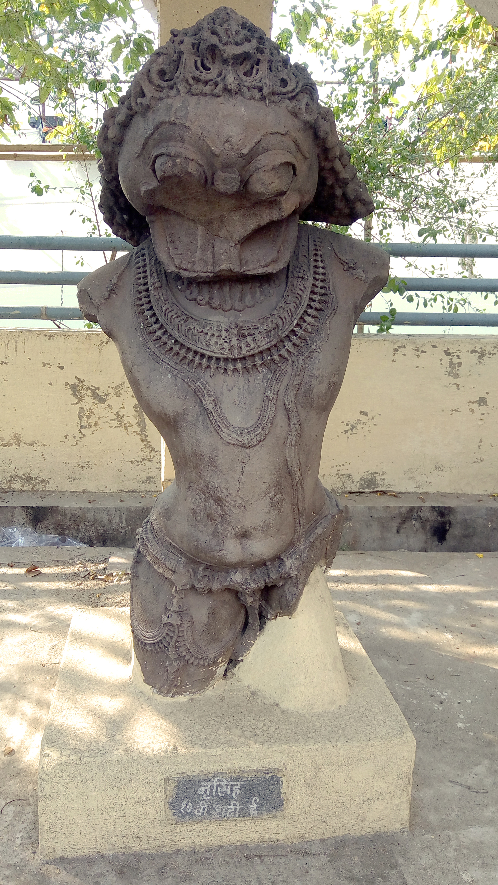 10th century Nrusingh at Mahant Ghasidas Museum Raipur